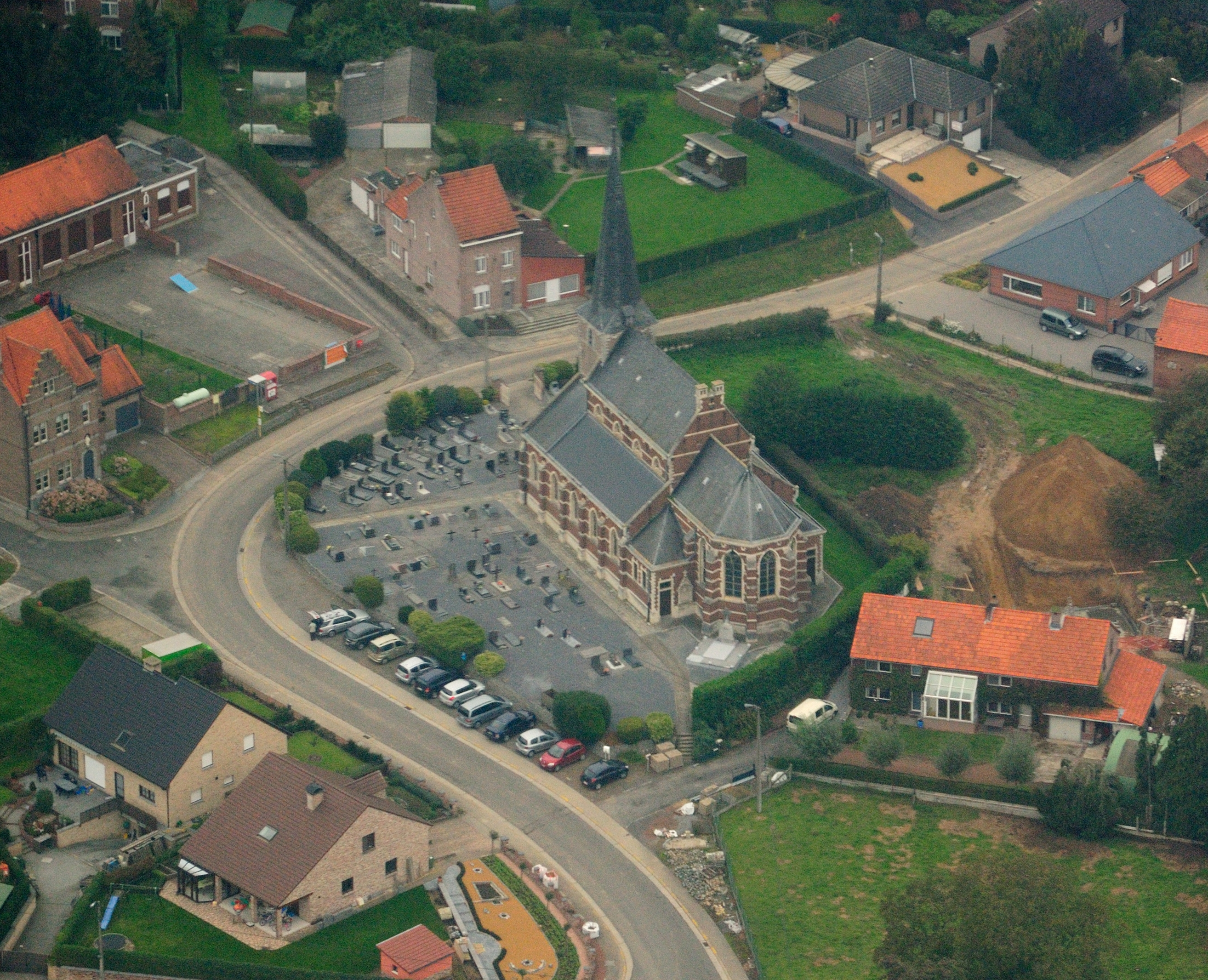 Aerial view, from the Southeast, of the church of Saint Andrew in "Doelaagstraat" street at Attenrode, commune of Glabbeek, Belgium. Nikon D60 f=98mm f/6.3 at 1/640s ISO 800. Processed using Nikon ViewNX 1.5.2 and GIMP 2.6.6.